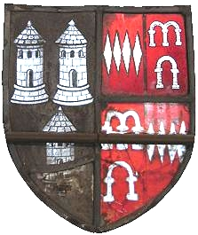 Armorials depicted in stained glass window of Bampton Church, Devon, showing arms of Sapcotes of Elton, Huntingdonshire, Sable, three dovecotes argent impaling quarterly of four, 1st & 4th: Gules, four fusils ermine (Dinham), 2nd & 3rd Gules, three pairs of arches argent (Arches, for Sir Richard Arches (d.1417) of Eythorpe, Cranwell and Little Kimble, Buckinghamshire, whose daughter Joan Arches (d.1497) was the wife of Sir John IV Dinham (1406-1458), and thus was Elizabeth Dinham's mother.[1] Elizabeth Dinham (d.1516), 2nd sister and co-heiress of the last Baron Dinham (d.1501),[2] married twice: Firstly to Fulk Bourchier, 10th Baron FitzWarin [3] (1445–1479),[4] whose will directed his burial to be at Bampton if he should die in England.[5] Secondly to Sir John Sapcotes (d.1501) of Elton, Huntingdonshire. His will, dated at Tawstock, the seat of the Bourchiers, directed that he should be buried in Hartland Abbey, founded by the Dinhams in 1168/9[6] Note the similarity of the arms to those of the family of Shapcott [1] of Shapcott in the parish of Knowstone (Vivian, Lt.Col. J.L., (Ed.) The Visitation of the County of Devon: Comprising the Heralds' Visitations of 1531, 1564 & 1620, Exeter, 1895, p.677). It appears that the two families were not related. The arms may be canting arms refering to sap, possibly a type of dove.)